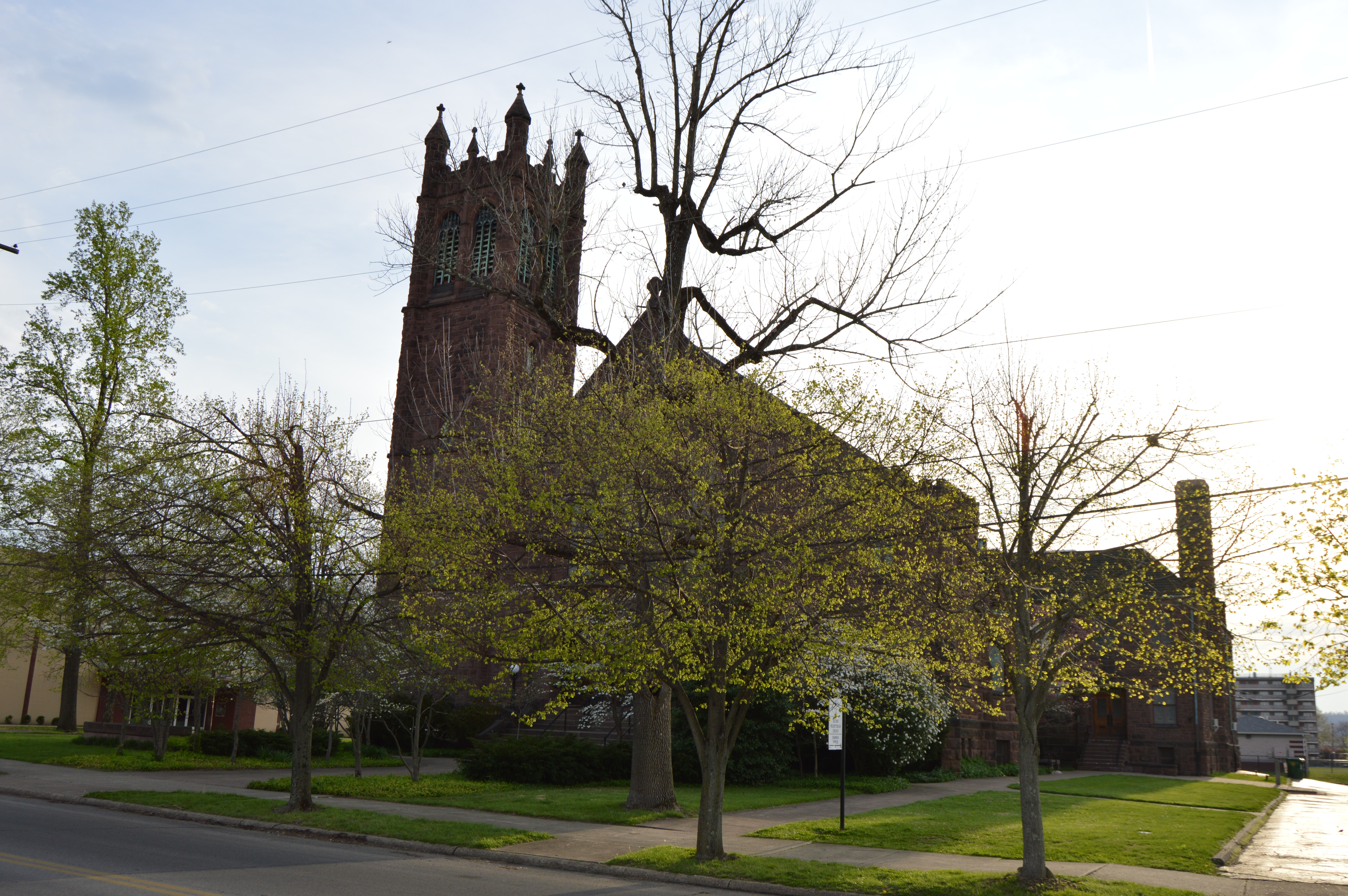 Front and northern side of Second Presbyterian Church, located at 801 Waller Street in Portsmouth, Ohio, United States. Built in 1911, it is listed on the National Register of Historic Places.